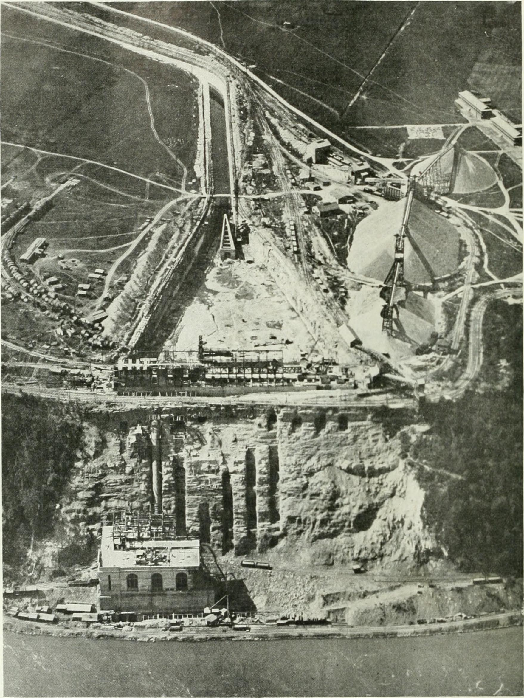 Title: Electrical news and engineering Year: 1891 (1890s) Authors: Subjects: Electrical engineering Publisher: Don Mills, Ont. (etc.) Southam-Maclean Publications Text Appearing Before Image: unit will be capable of operating continuouslyat 49,500 Ic^.a., with either voltage or current 10 per centin excess of the rated value. At 80 per cent power factor theover-all efficiency of the generators will be slightly in excessof 97 per cent. The thrust bearing is designed to support a load of1,000.000 lbs. This is slightly in excess of the weight of delta to Y to give 110,000 to 132,000 volts, at rated load.These are of the shell type, and individually rated at 15.000kv.a.. 25 cycle, 12.000/63.500/75,000. They are guaranteed98.2 per cent efficient at 80 per cent power factor. Theweight of a complete transformer is 100 tons; this includes6,500 Imperial gallons of oil, which is required with eachtransformer for cooling purposes. The transformer dimen-sions are 28.5 ft. high, 9.5 ft. diameter. Each bank is equip-ped with differentia! protection. Switching ApparatusThe switching apparatus consists of 12.000 and 110,000 88 THE ELECTRICAL NEWS Airplane View of Queenston-Chippawa Plant Text Appearing After Image: A wonderfully realistic Birds-eye view of the Chippawa-Queenston development of the Hydro-ElectricPower Commission of Ontario showing Canal, diffuser, forebay, gatehouse, penstocks, powerhouse andNiagara River. THE ELECTRICAL NEWS